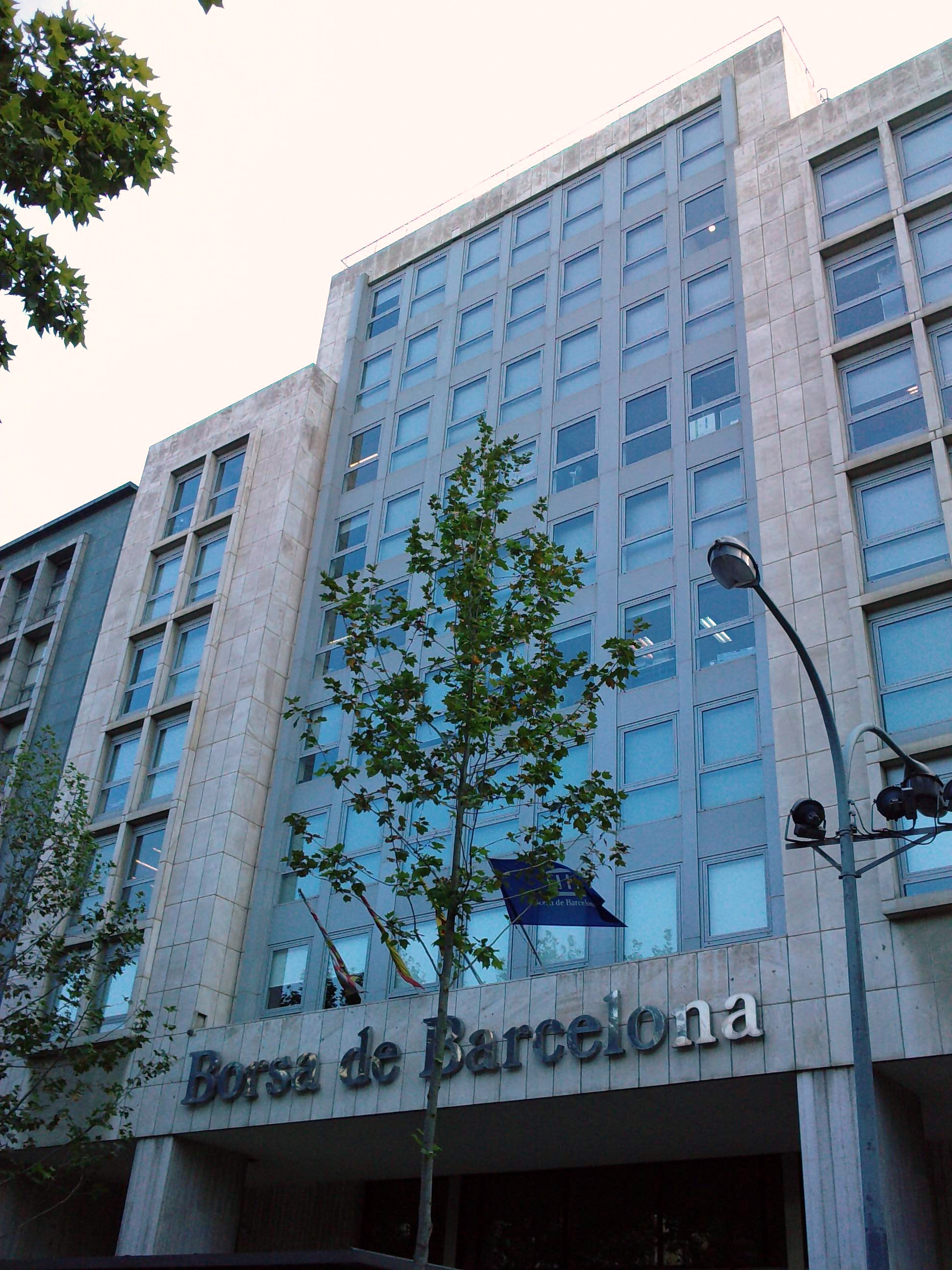 Borsa de Barcelona